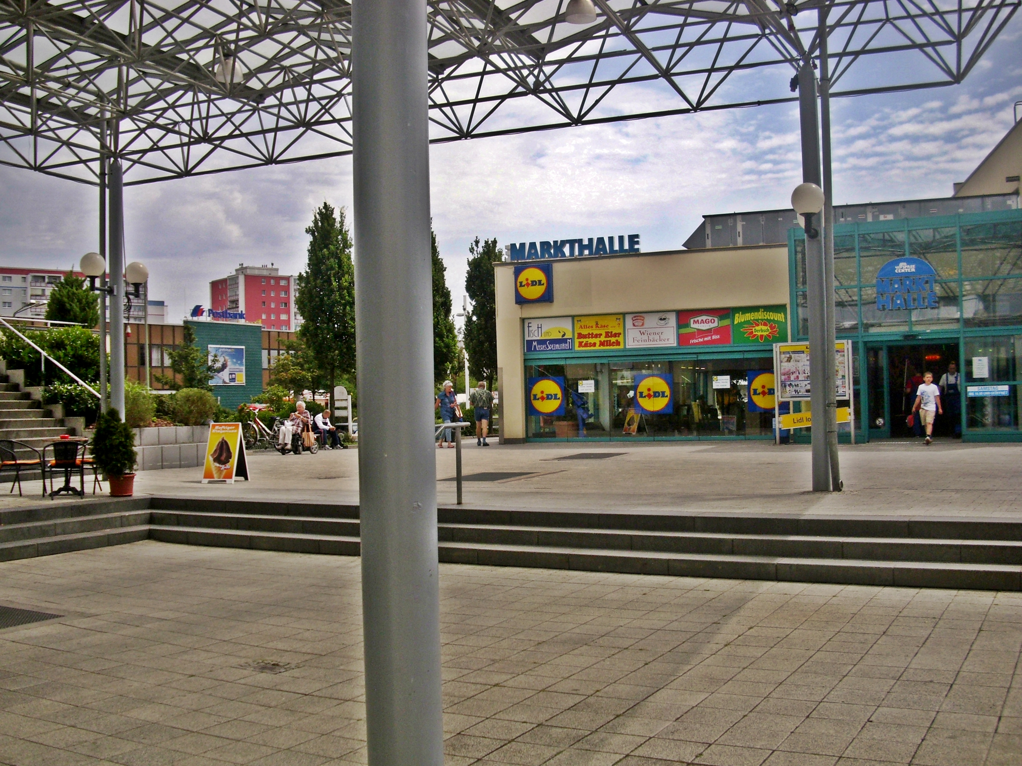 Before the market hall at the center Spree Hellersdorf